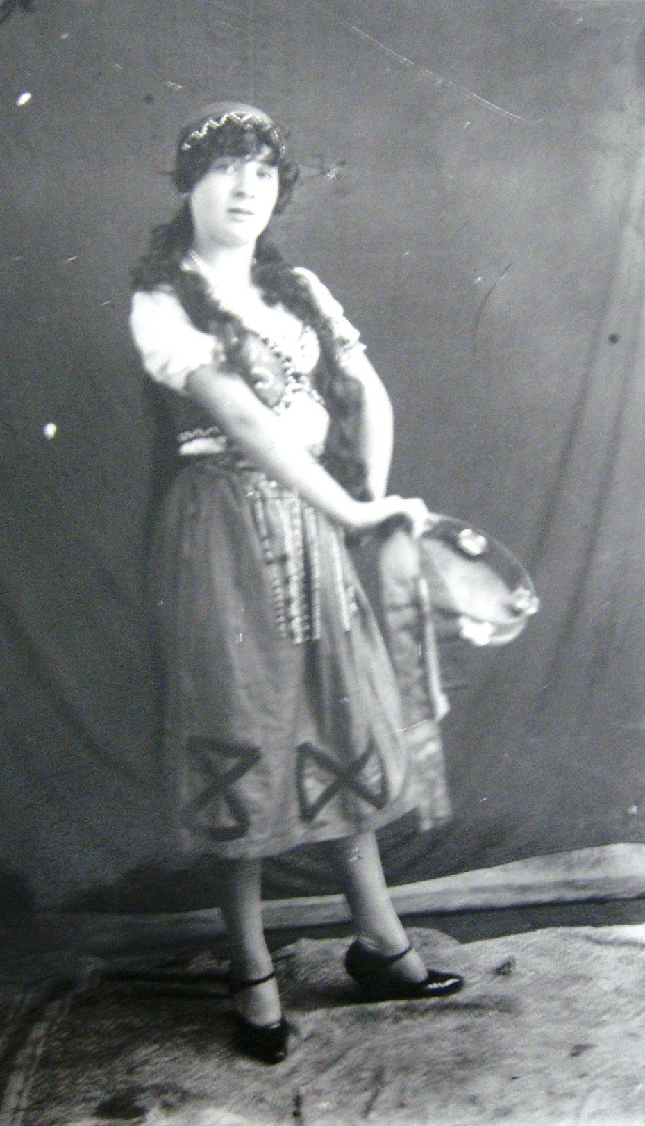 Bitola theatre actress who plays the role of Koštana. Photographed in the studio of the brothers Manaki in Bitola, between the two World Wars, 1918-1941 This media file is produced by Wikipedian in Residence in Category:Wikipedian in Residence at DARM in 2016.